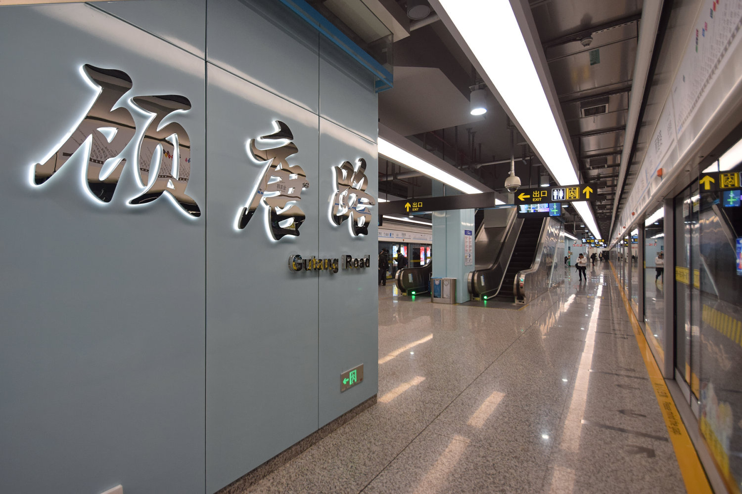 Line 9 Platform of Gutang Road Station, Shanghai Metro